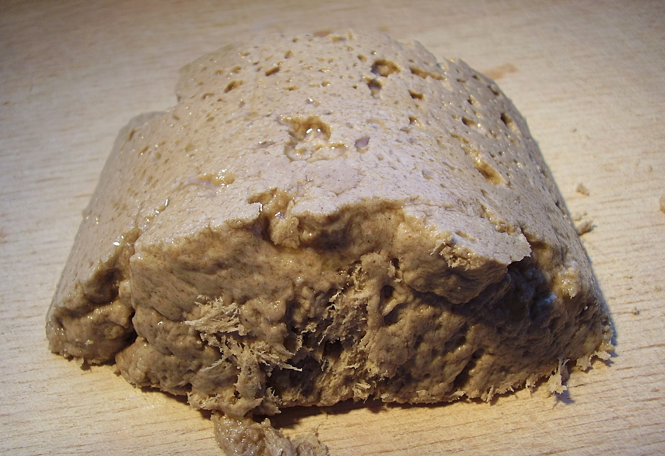 Sunflower halva